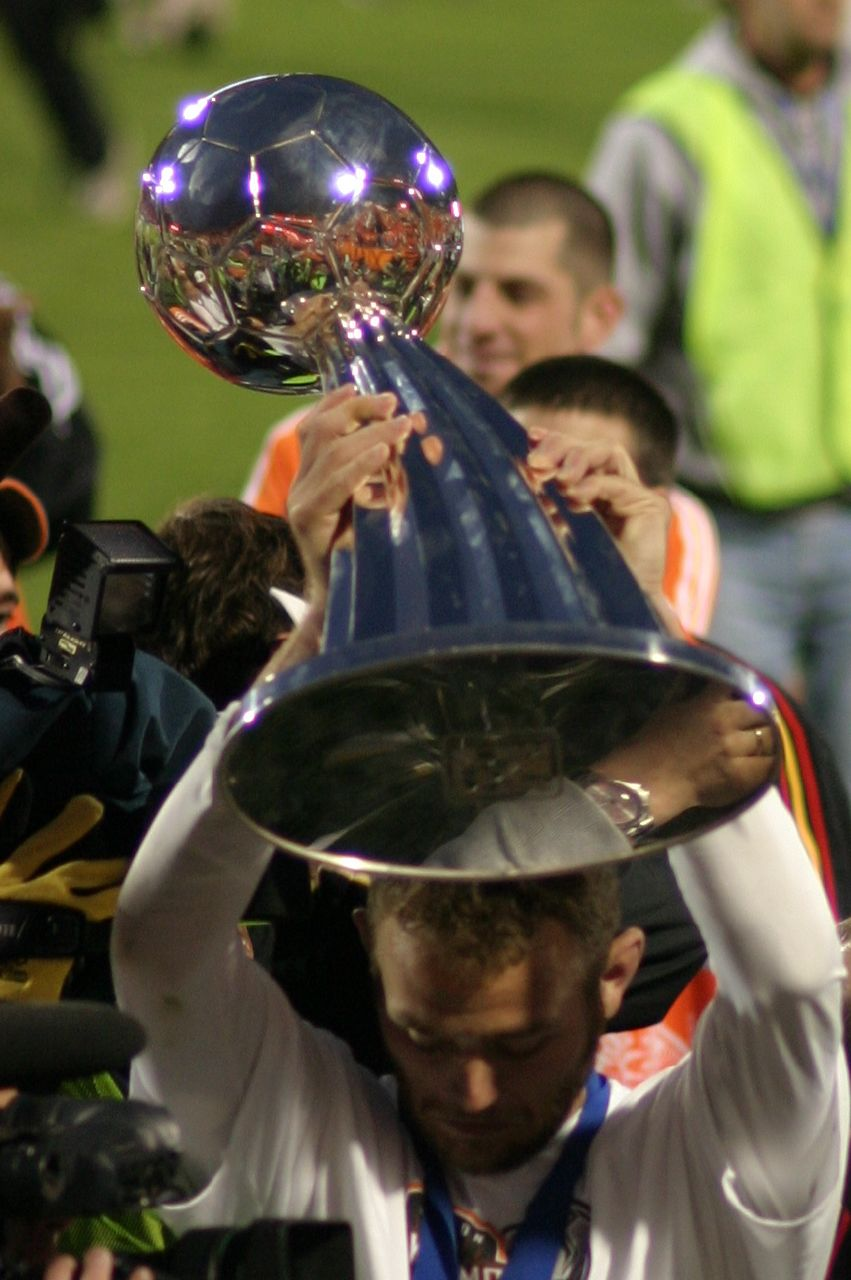 Photos taken at MLS Cup 2006. The Houston Dynamo defeated the New England Revolution 4-3 on penalties after the two teams drew 1-1 at the end of extra time. 11/12/2006 Pizza Hut Park, Frisco, Texas.